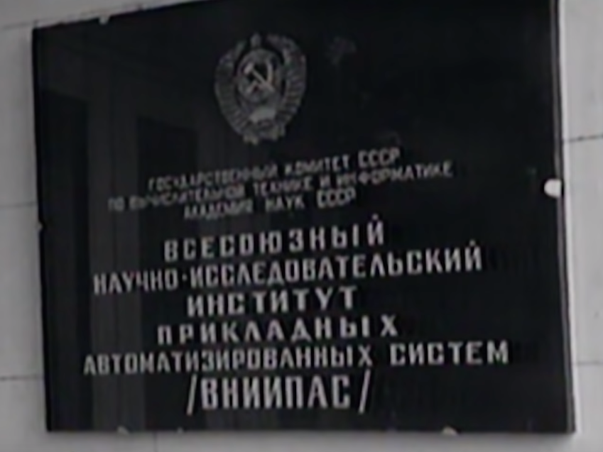 VNIIPAS